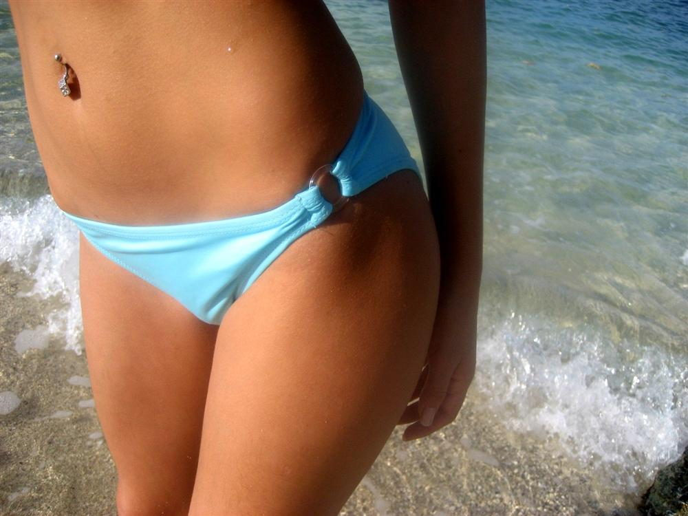 Blue bikini bottom.